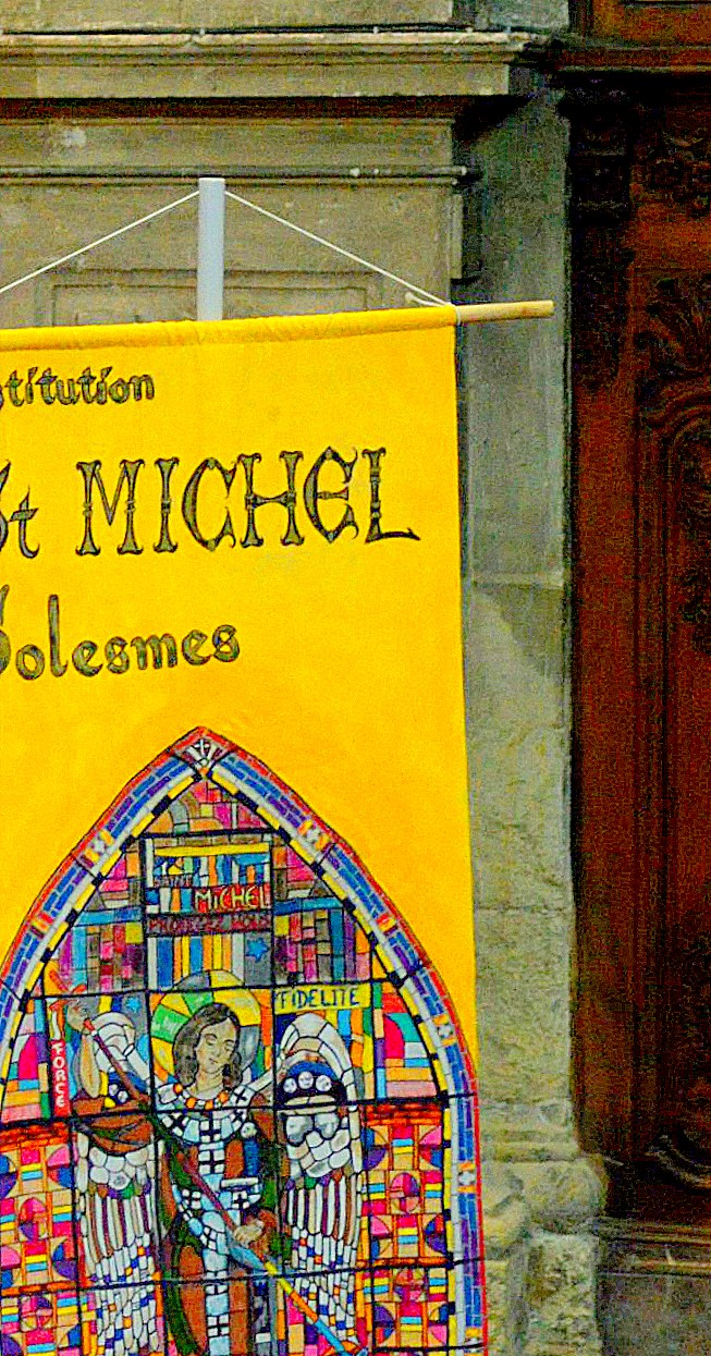 Saint-Michel - Solesmes' étendard.